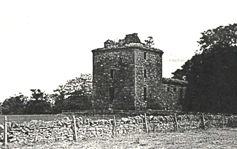 Melgund Castle before restoration